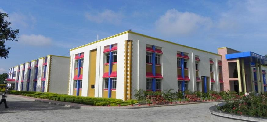 Buildings in the campus of Sarla Birla Public School, Ranchi, Jharkhand